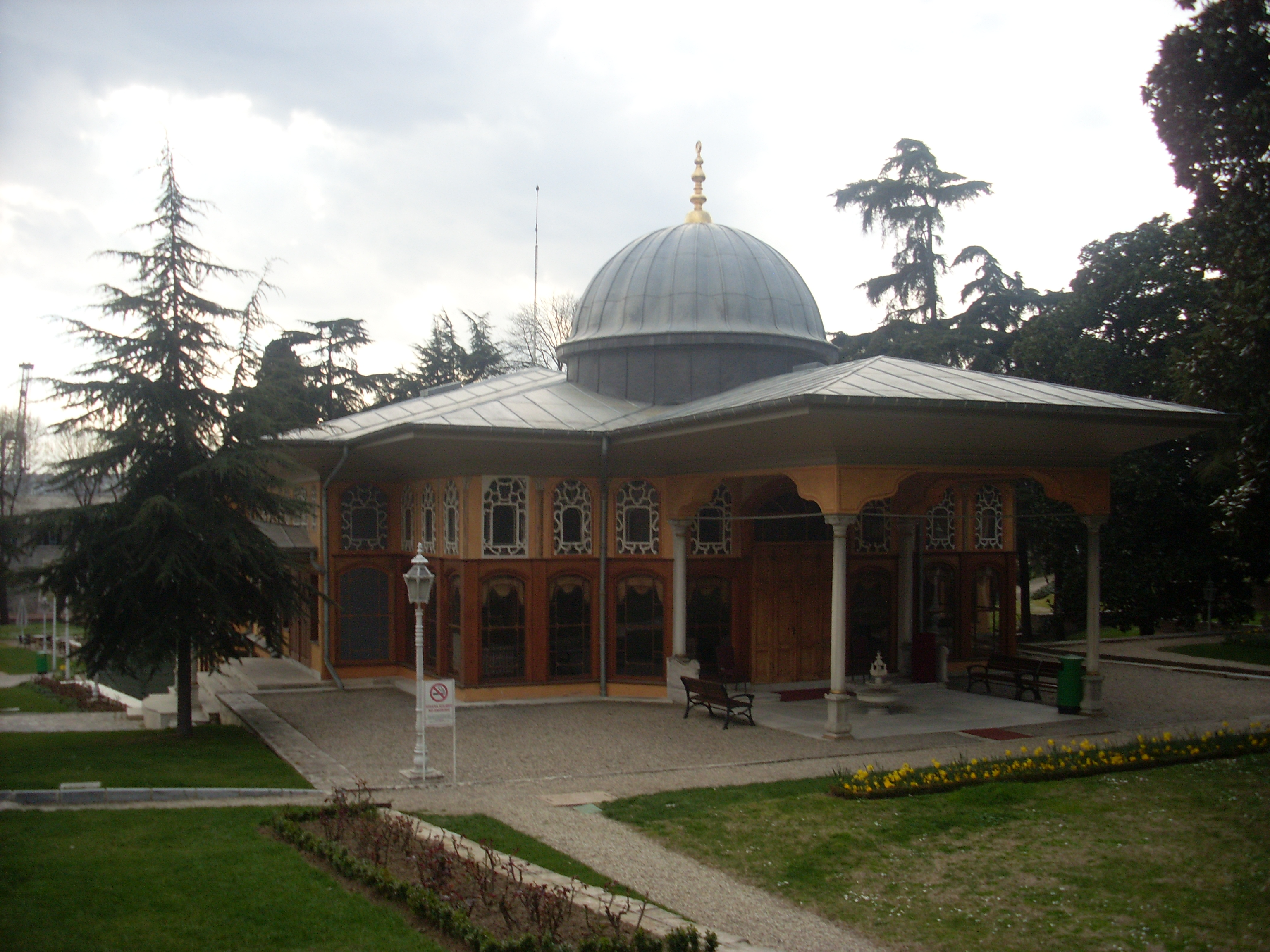 İstanbul - Aynalıkavak Kasrı - Mar 2013 - r2